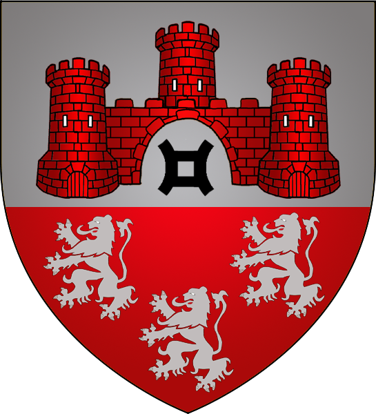 Coat of arms of the municipality of Steinsel, Luxembourg